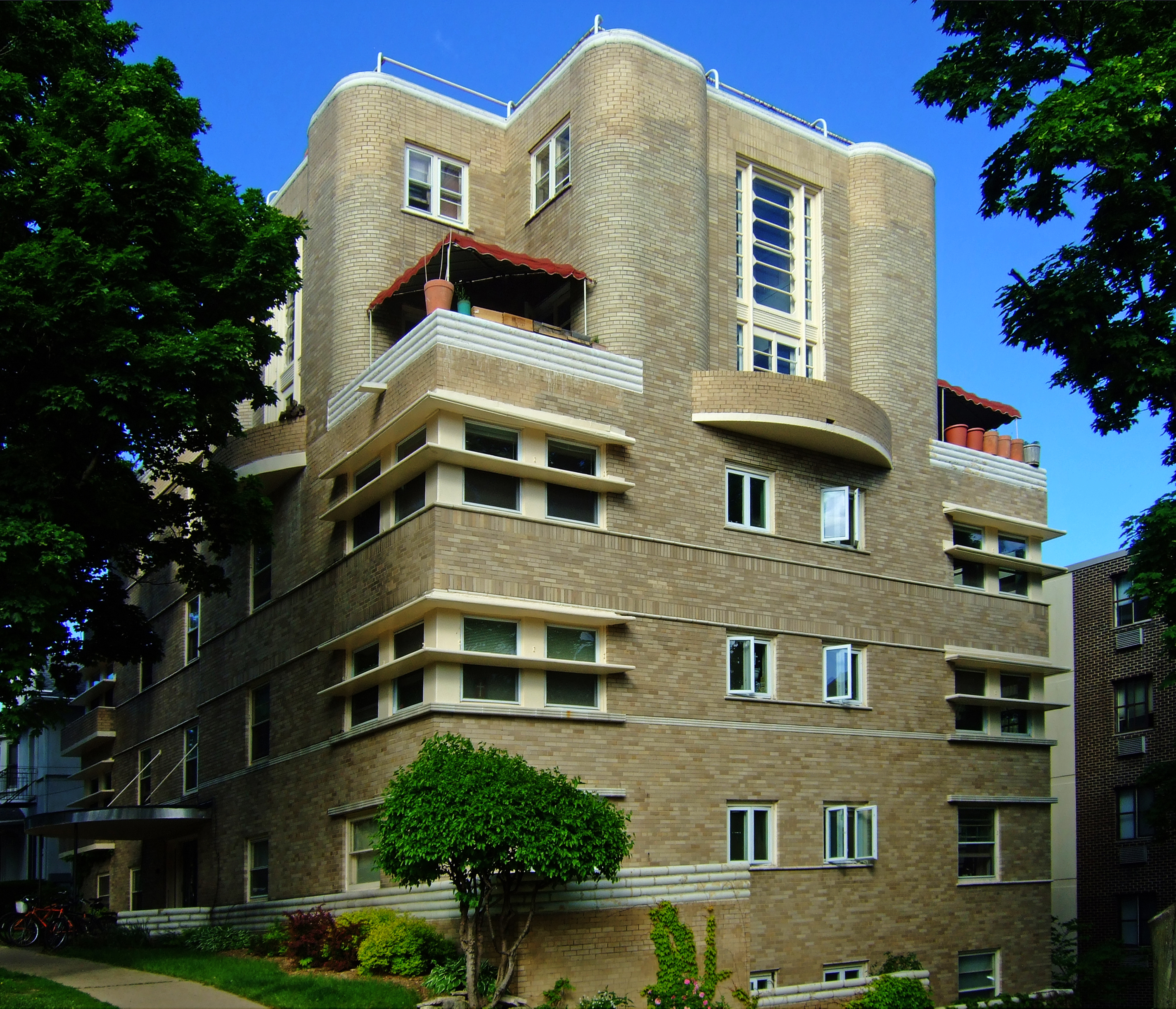 Quisling Towers Apartments (ca. 1939) in Madison, Wisconsin. Designed by Louis Monberg in the streamlined moderne style and added to the National Register of Historic Places in 1984.